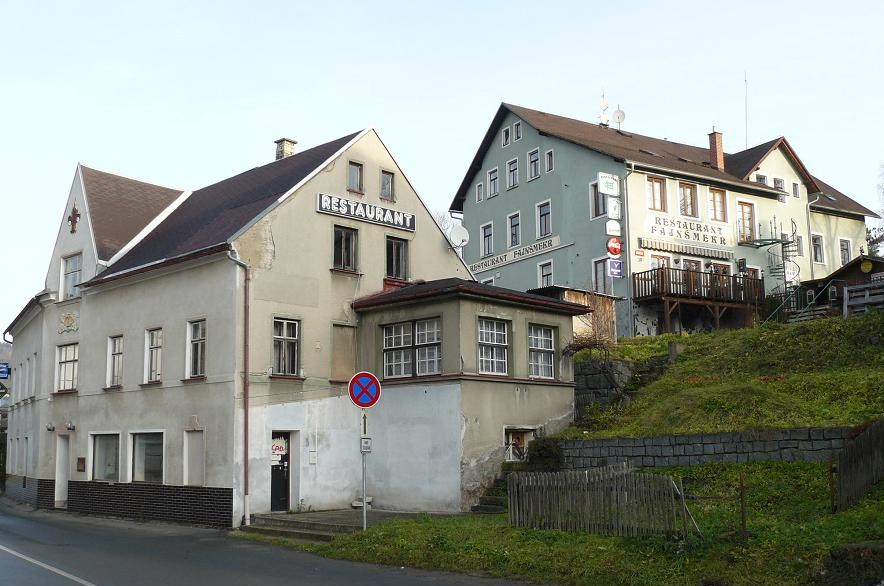 Restaurants in Dolni Poustevna CR.